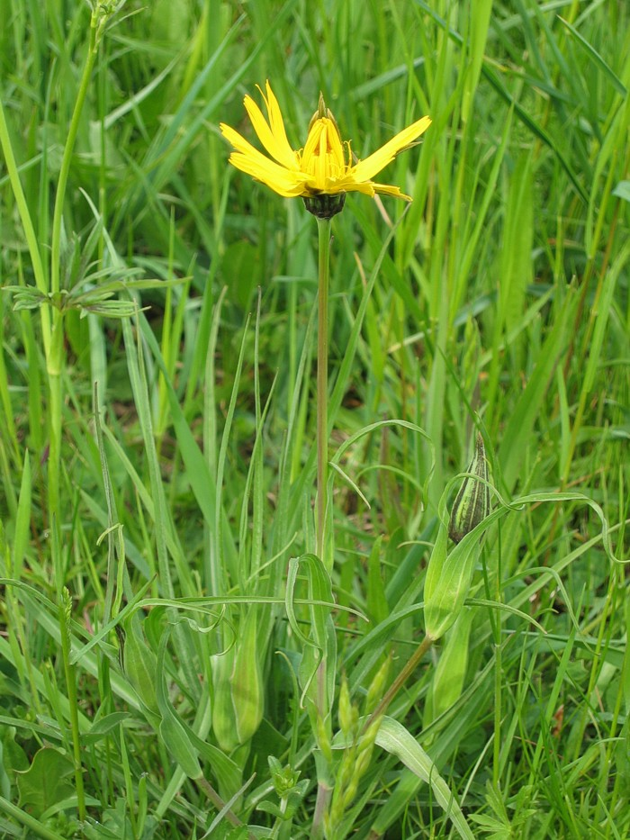 Tragopogon orientalis